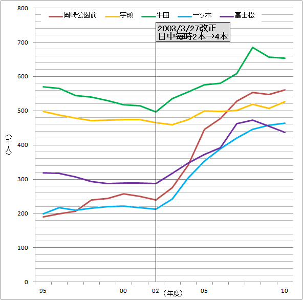 Vehicle ridership of Okazakikōen-mae, Uto, Ushida, Hitotsugi and Fujimatsu Station.